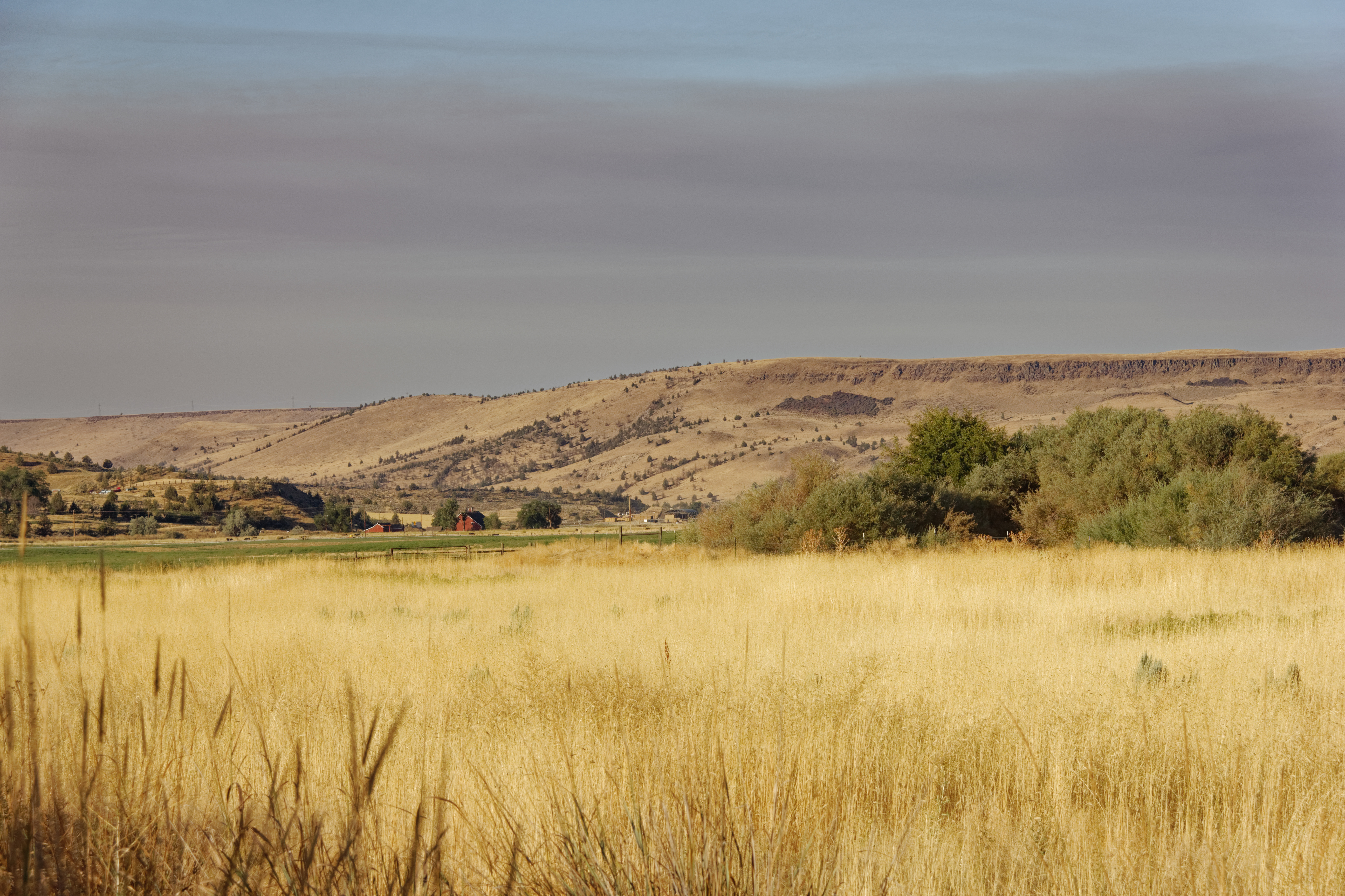 Central Oregon, Trout Creek valley